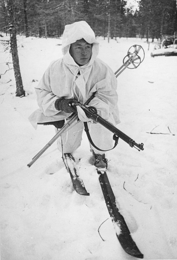 Army Wintertime during the Finnish-Russian War 1939-1940. A soldier during the winter war fully armed and wearing the winter suit.